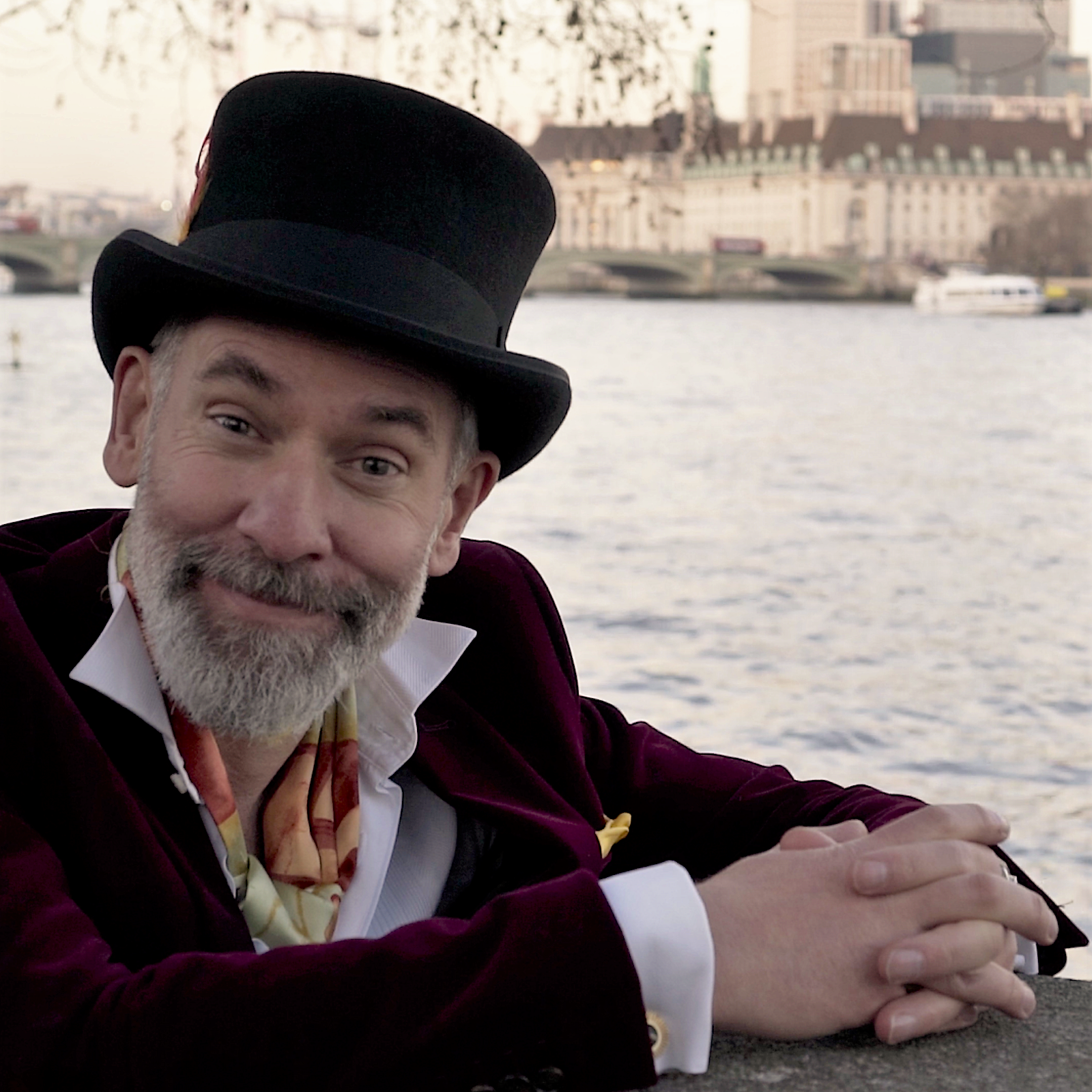 Dominic Frisby filming 17 Million F*ck-Offs - A Song About Brexit